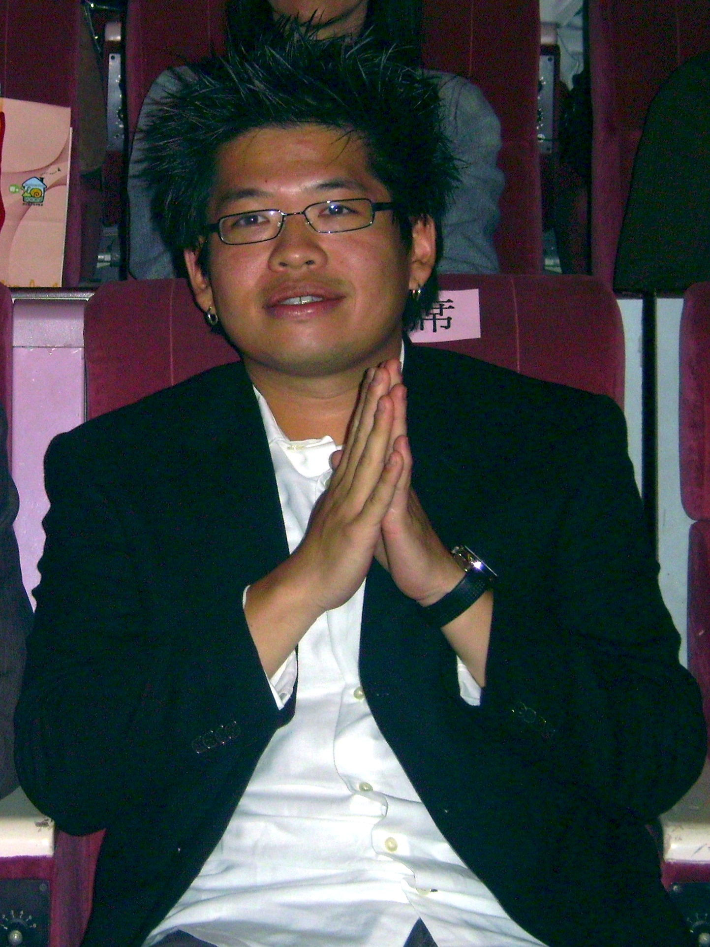 Steve Chen, Founder of YouTube.